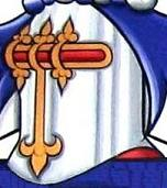 Depiction of the helm of a Scottish baron from Letters Patent painted by Maggie Spalding, BDes.